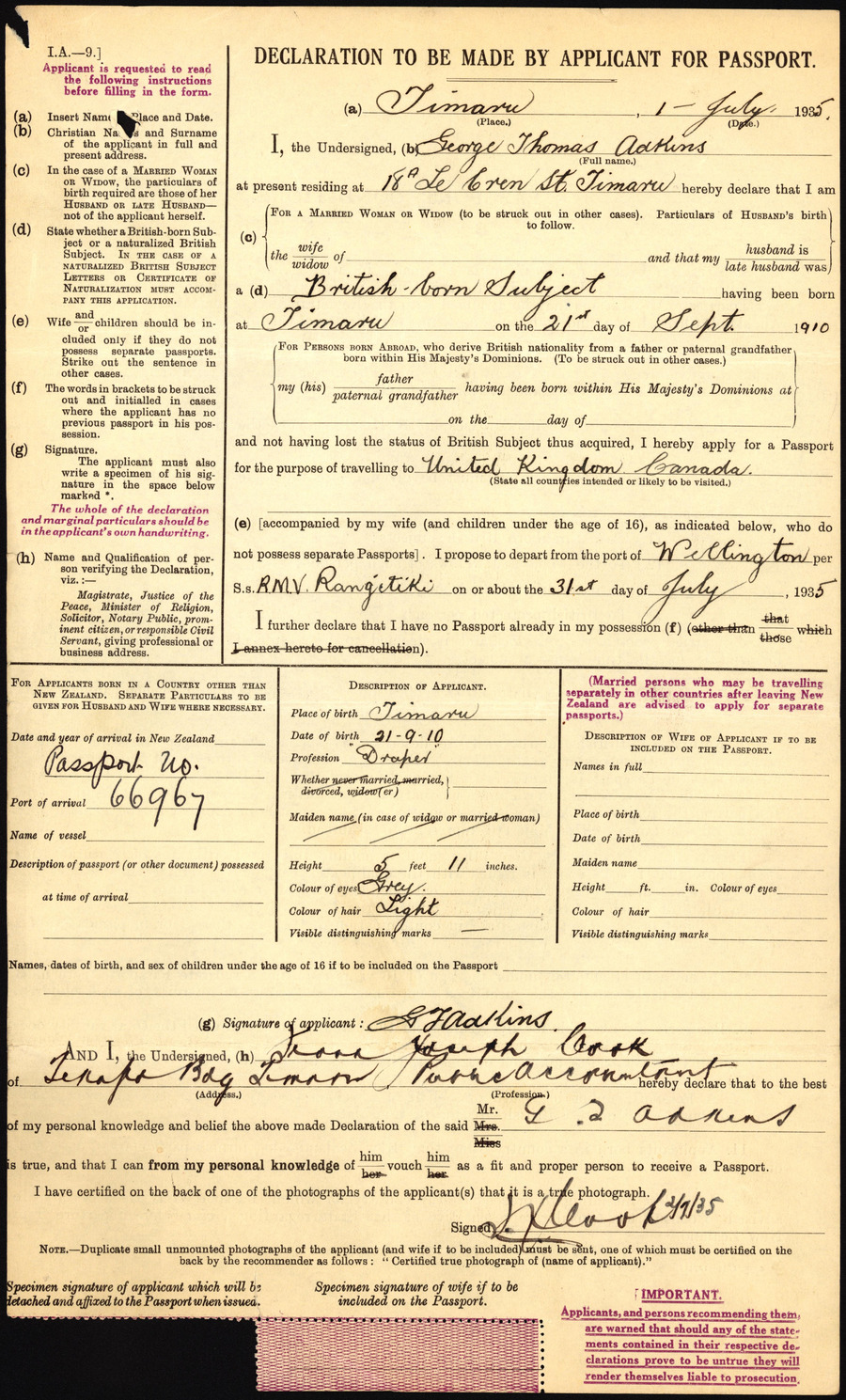 Archives New Zealand Reference: ACGO 8333 IA1 1350 / 15/11/59182